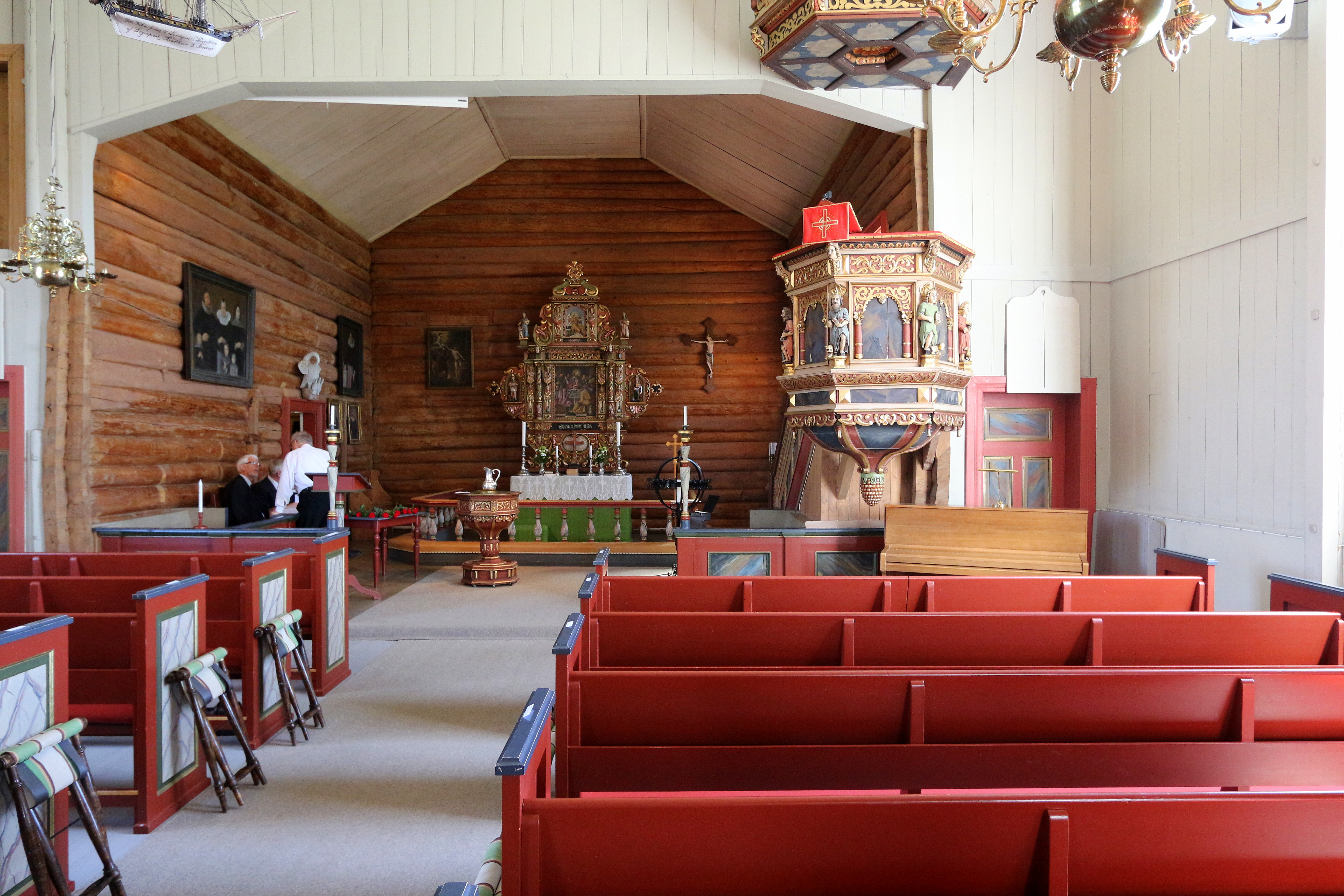 Leksvik church - interior